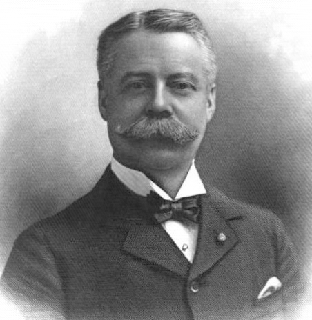 William Eastin English (Indiana Congressman)